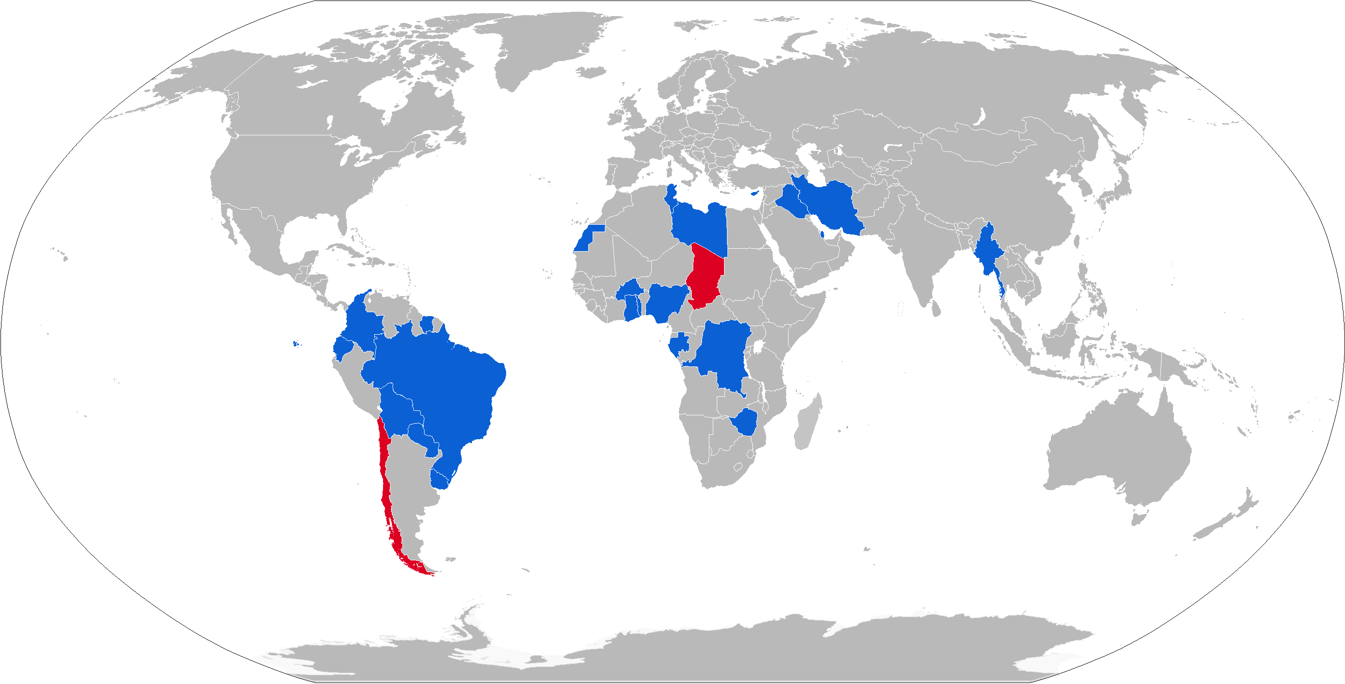 Map of EE-9 operators in blue with former operators in red